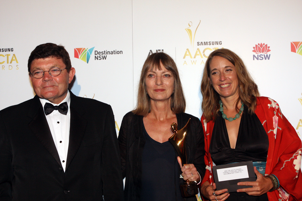 The 1st AACTA Awards were presented at the Sydney Opera House on 31 January 2012. The ceremony was preceded by a luncheon at the Westin Hotel in Sydney on 15 January 2012.